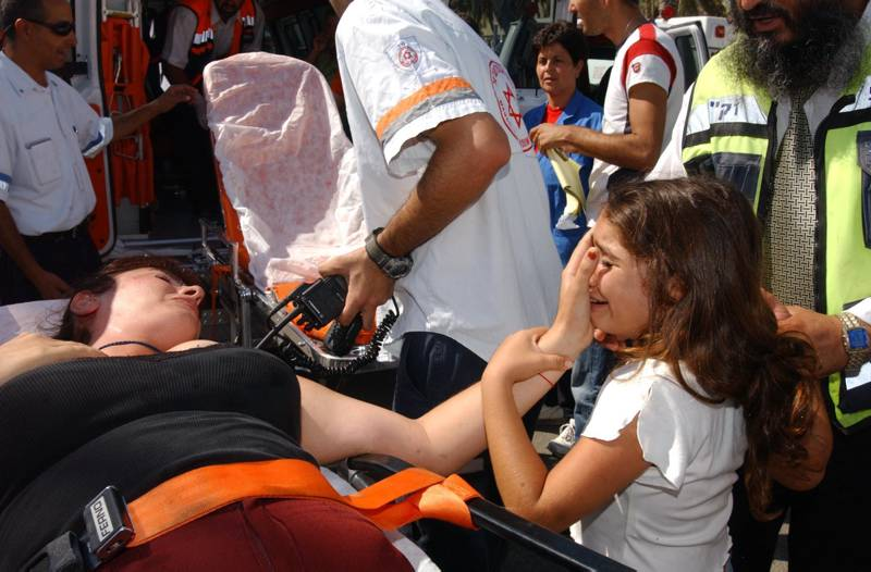 Israeli woman patting her crying daughter after qassam hit the center southern town of Sderot; the qassam fired by Palestinian militants in Gaza.